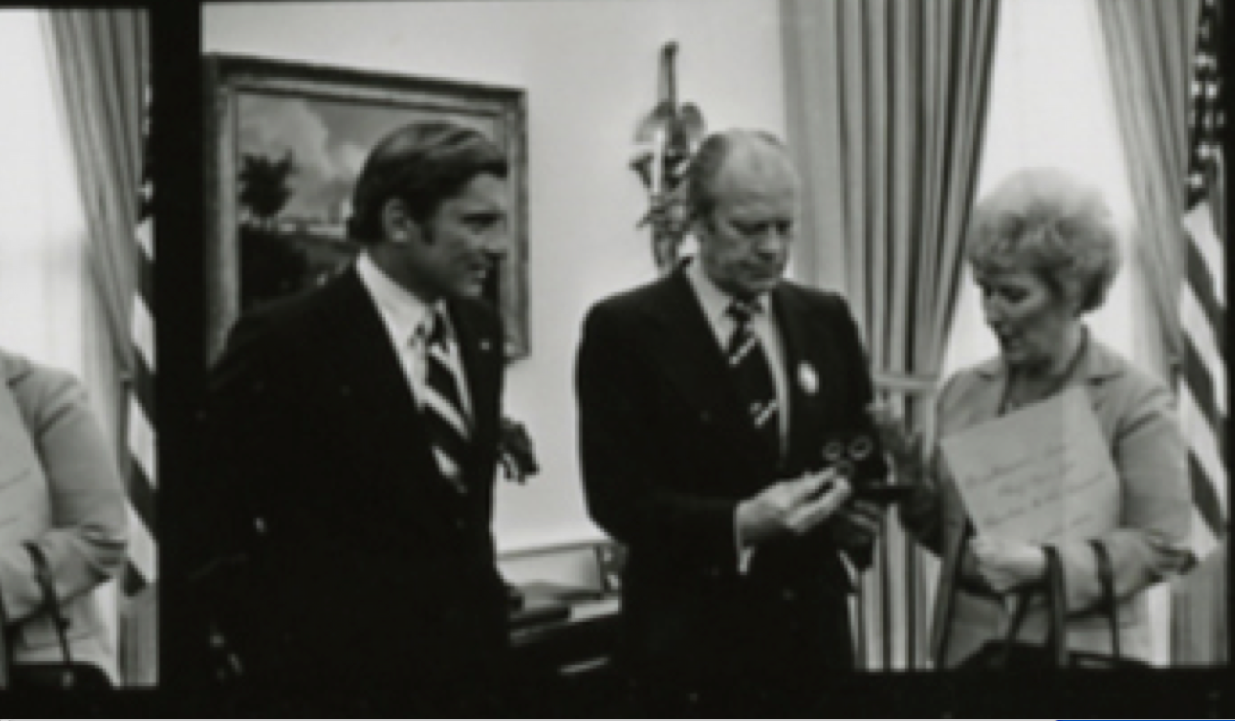 Mint Director Mary Brooks gives President Gerald Ford a first set of the United States Bicentennial coins as John Warner looks on. Film roll A-1905 from Ford library, see here Contact sheet here. Lifted by screen capture.